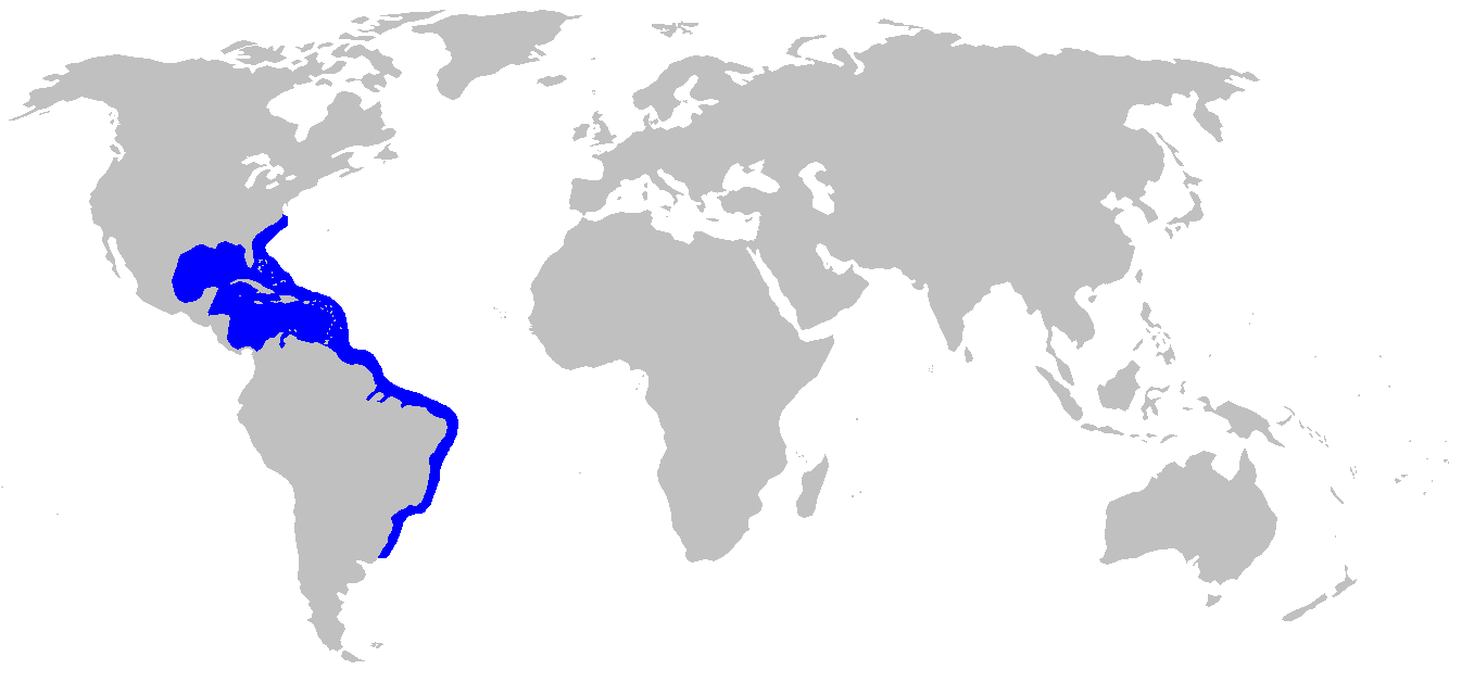 Range of the southern stingray (Dasyatis americana), based on [1]